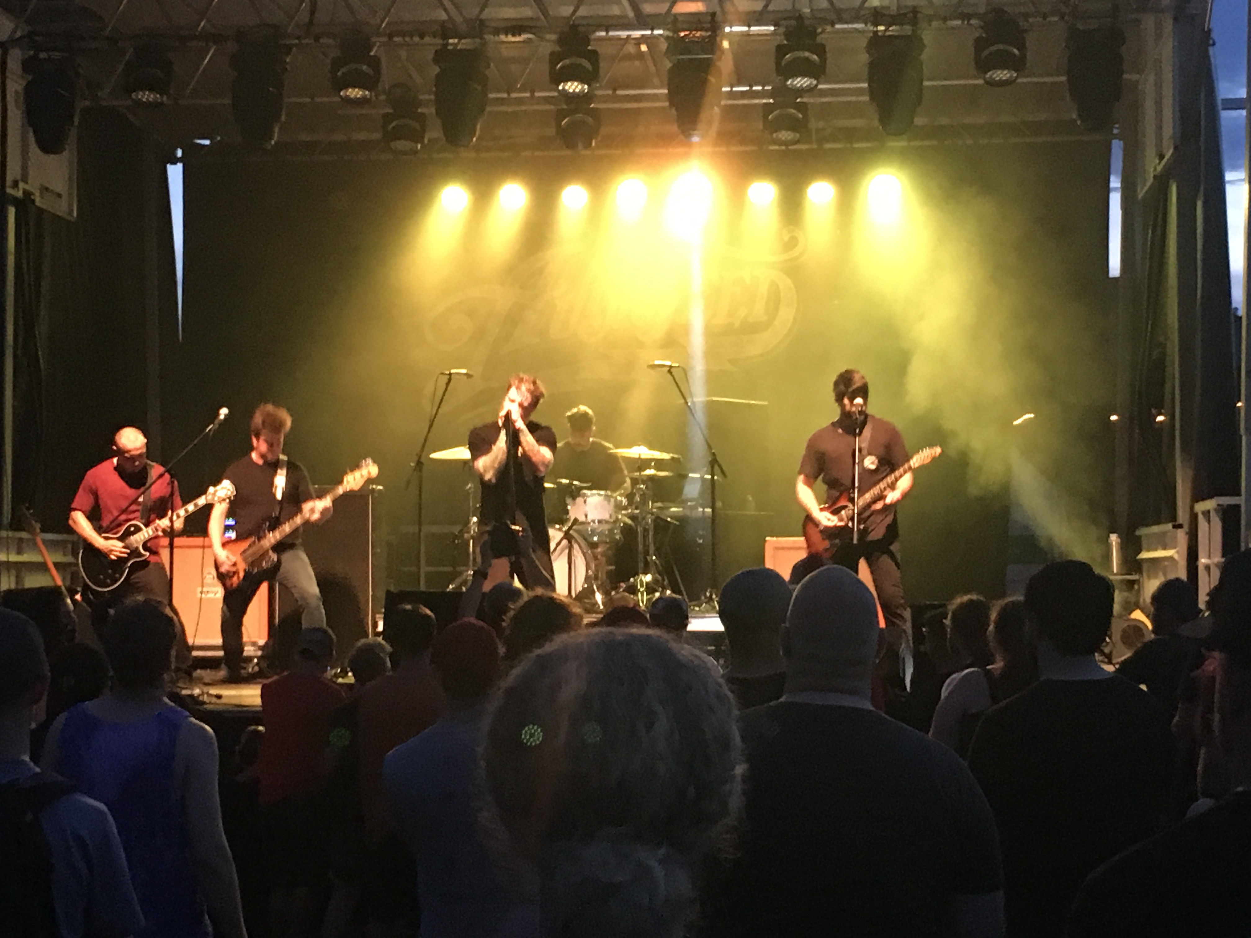 Wolves at the Gate performing live at Audiofeed 2019 on the Black Sheep Stage.